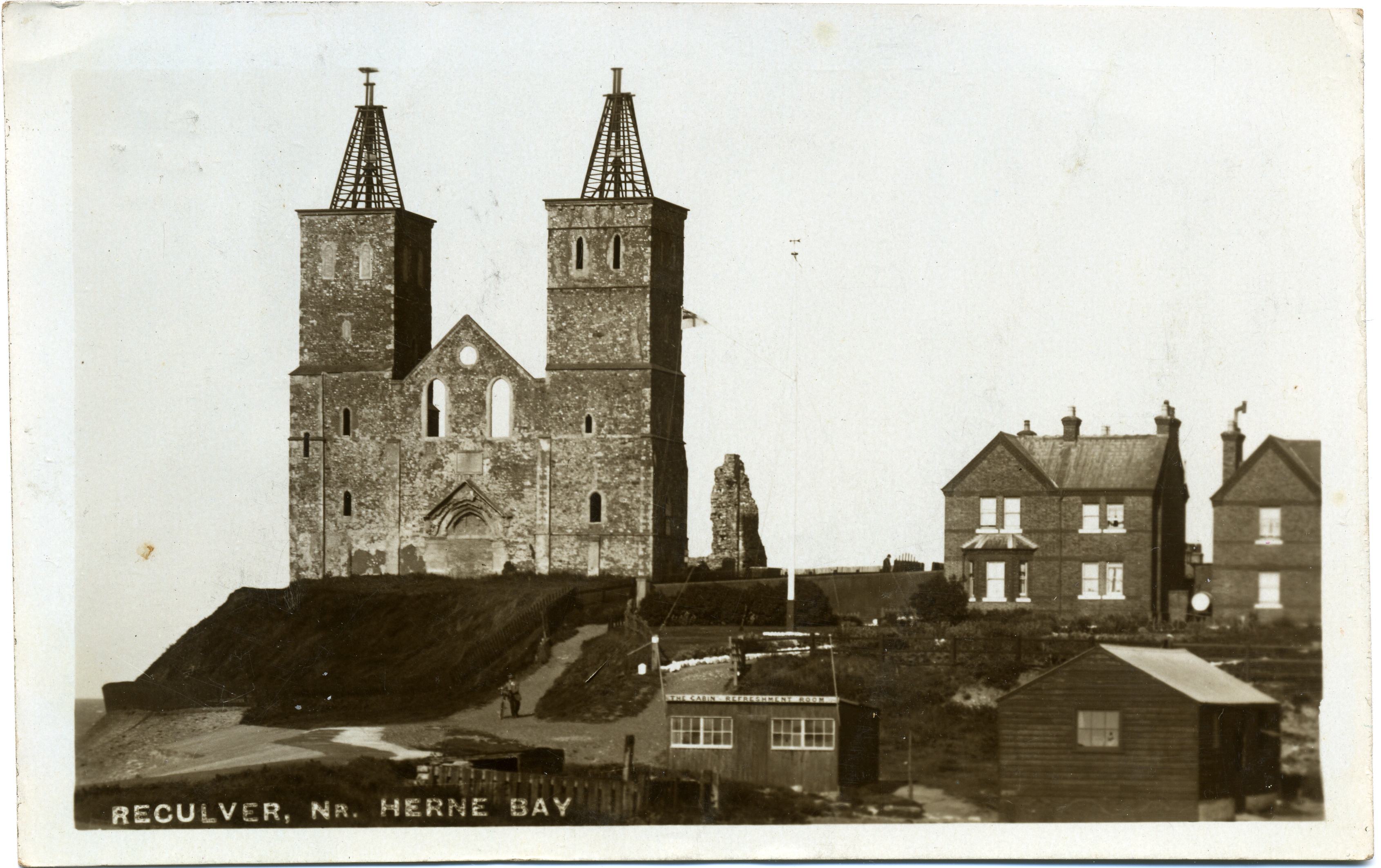 Postcard photo of Reculver Towers, near Herne Bay, Kent England. The photographer was Fred C. Palmer of Tower Studio, Herne Bay, Kent, who died in Hungerford, Berkshire, on 14 March 1941. The postcard is postmarked 6th August 1913. Border The remaining border of this image is important for researchers of this photographer. Some photographers trimmed their images more than others, and Palmer has a reputation for producing smaller postcards than other early 20th century UK photographers. He took his own photos, developed them in-house onto postcard-backed photographic paper and trimmed them himself. It is worth adding that during hand-developing the border is actively masked with equipment which both crops the picture and causes the white frame or border to appear on the paper. This frame is part of the design and is one of the reasons why the quality of Palmer's work is so interesting, and why there is an article and category for him on English Wiki. Researchers need to see exactly where the edge of the postcard is. Thank you for taking the time to read this.